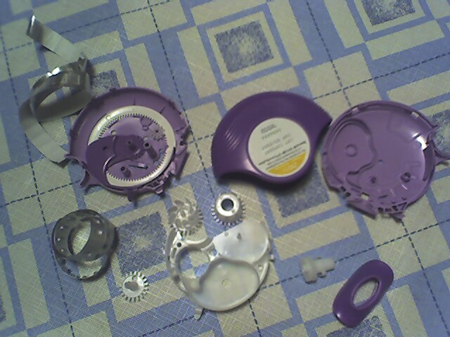 Advair Diskus I obtained through prescription. After completing treatment, disassembled for curiosities sake and photographed results. I declare this public domain, no rights reserved, unrestricted use allowed.